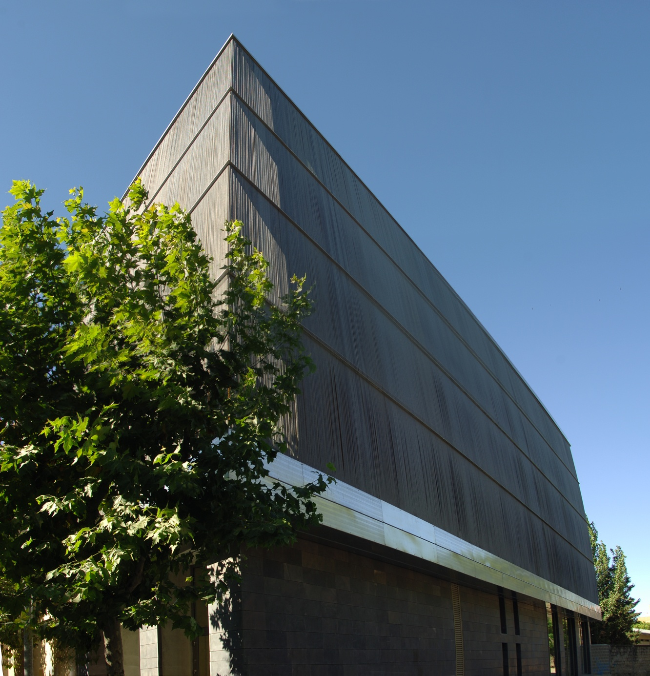 Sede del Centro de Archivo Documental y de la Imagen (Huesca, España)